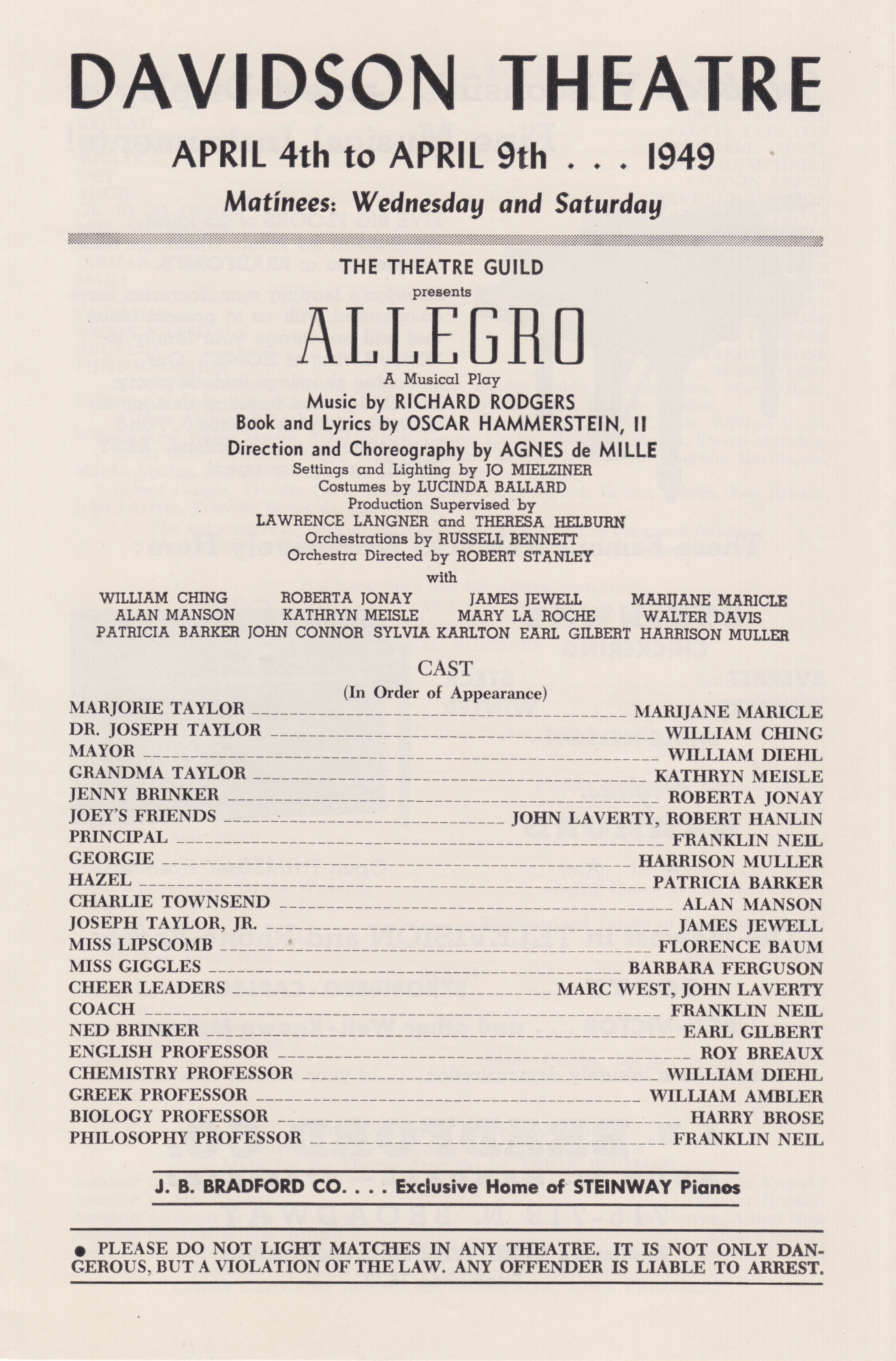 A program for Rodgers & Hammerstein's Allegro, for the road company.